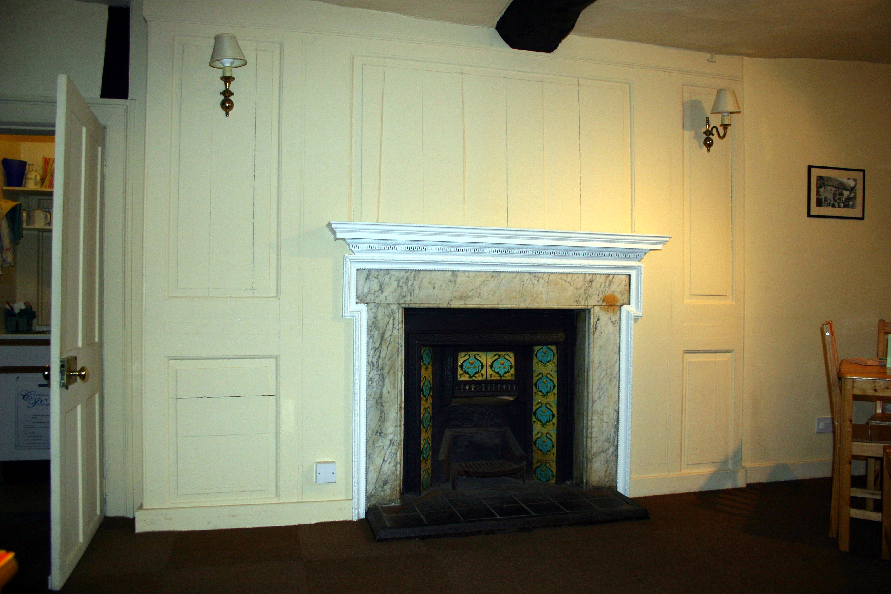 whitehall